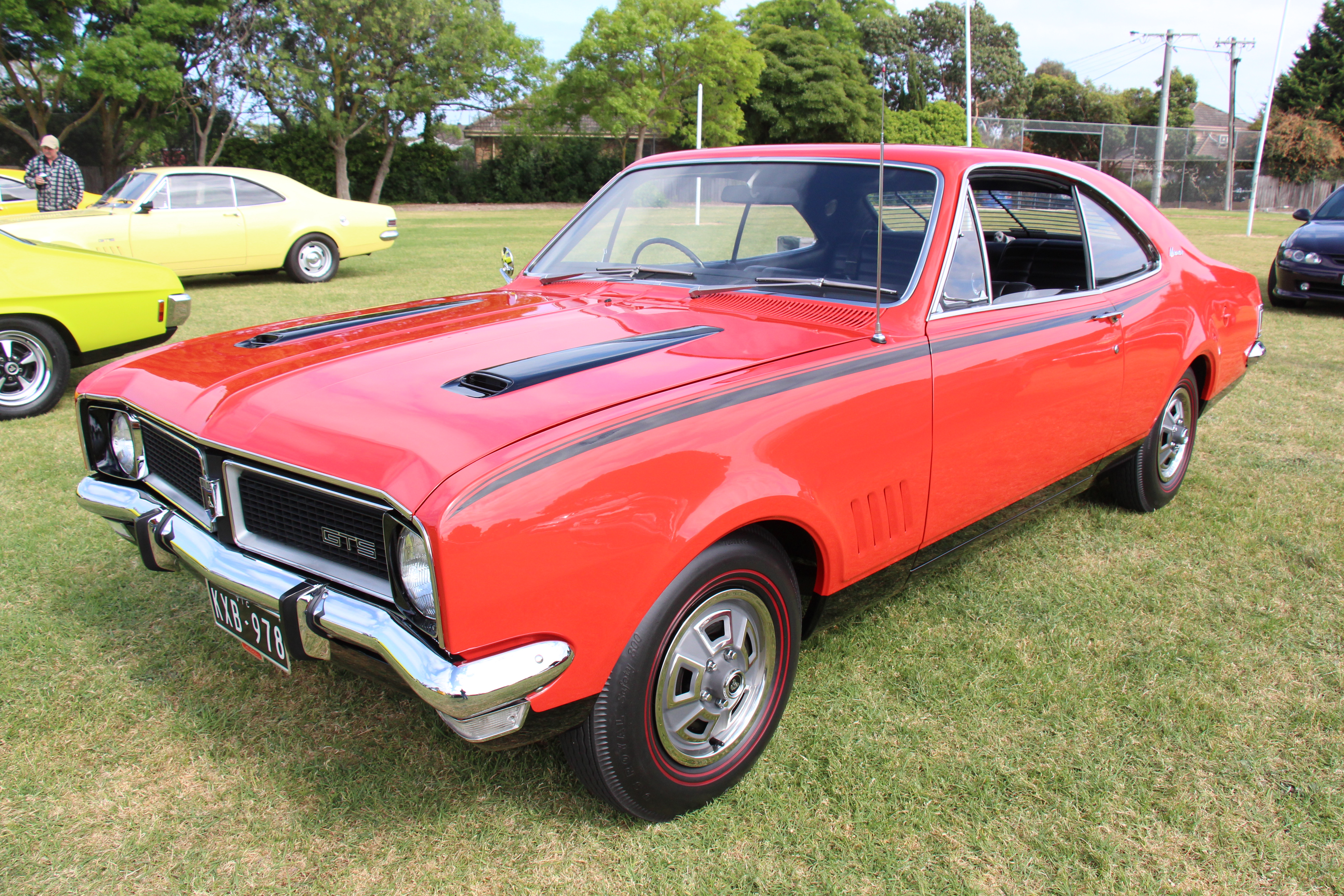 Rally Red. The HG Holden was built from July 1970-July 1971. The 2nd and final facelift on the HK-T-G shape. The new Australian made Trimatic was introduced on the HG. Most models got a new look plastic grille, the Premier and Broughams grille tho was the same as the HT. Like the HT, the HG sedan was available in four models; the base Belmont, then Kingswood, the luxury Premier and the longer body Brougham. Also available was a wagon, utility and panel van. And the Monaro 2 door coupe; available in base, sporty GTS and GTS 350. The GTS got full instrumentation, vents in the guards and racing stripes.The HG Monaro was a great touring car but didn't compete on the track like the previous Monaros, Toranas were used instead. The GTS350 is still a very collectible car today Engines; red 6 cyl; 145hp 186S V8s; 185hp 253, 210hp 307 (until run out) 240hp 308 and 300hp 350 (only in Monaro GTS 350)